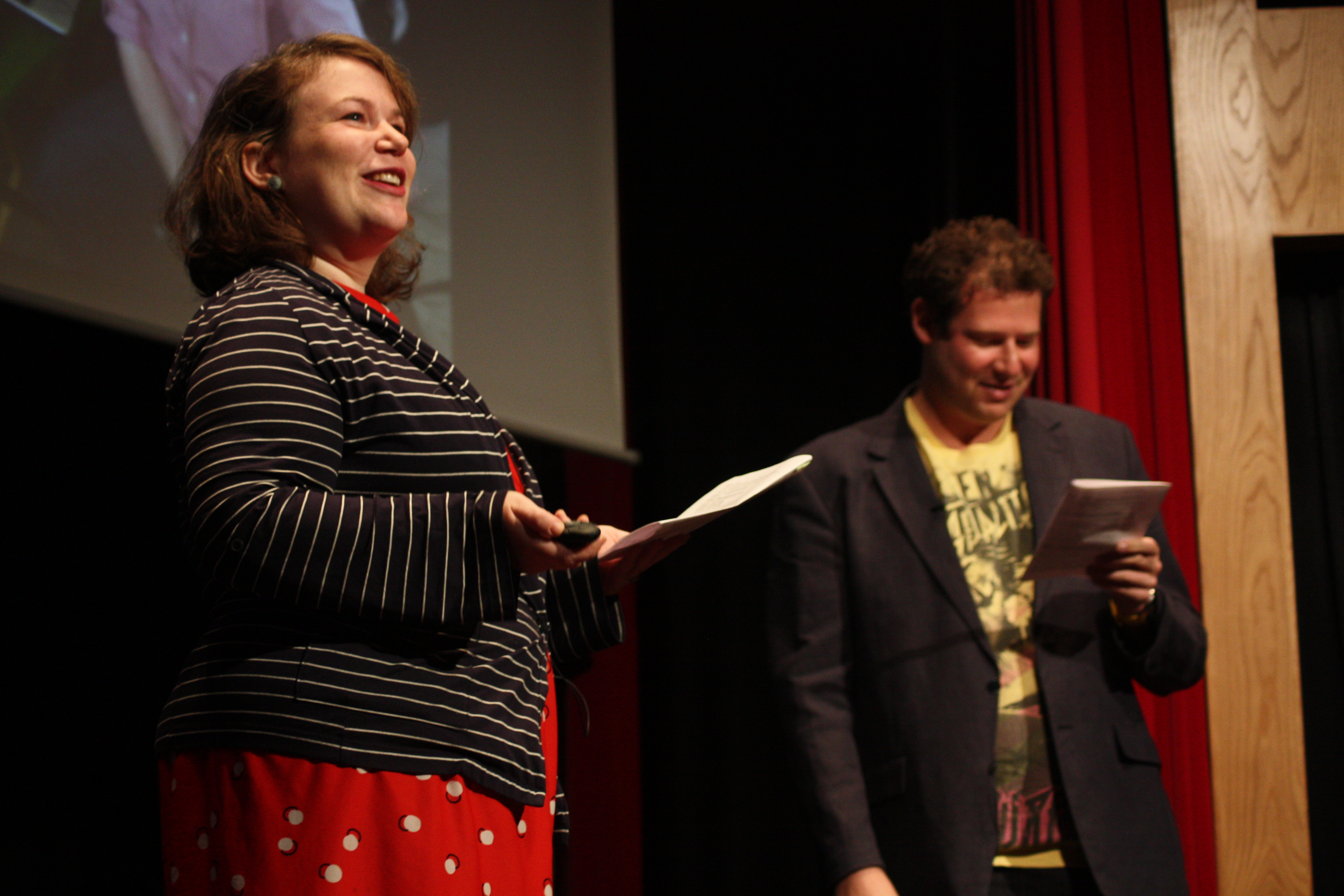 Photo: Will Jackson